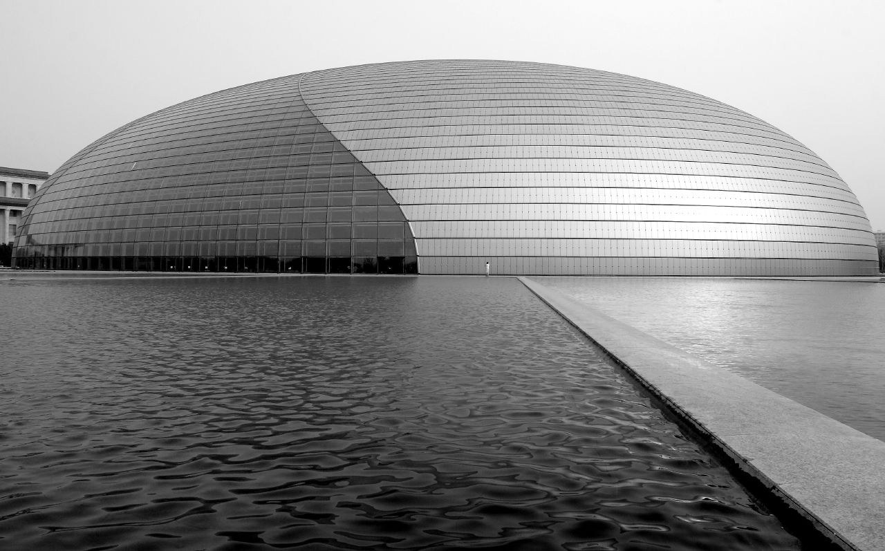 The National Grand Theater, Beijing China. Viewed from northwest.